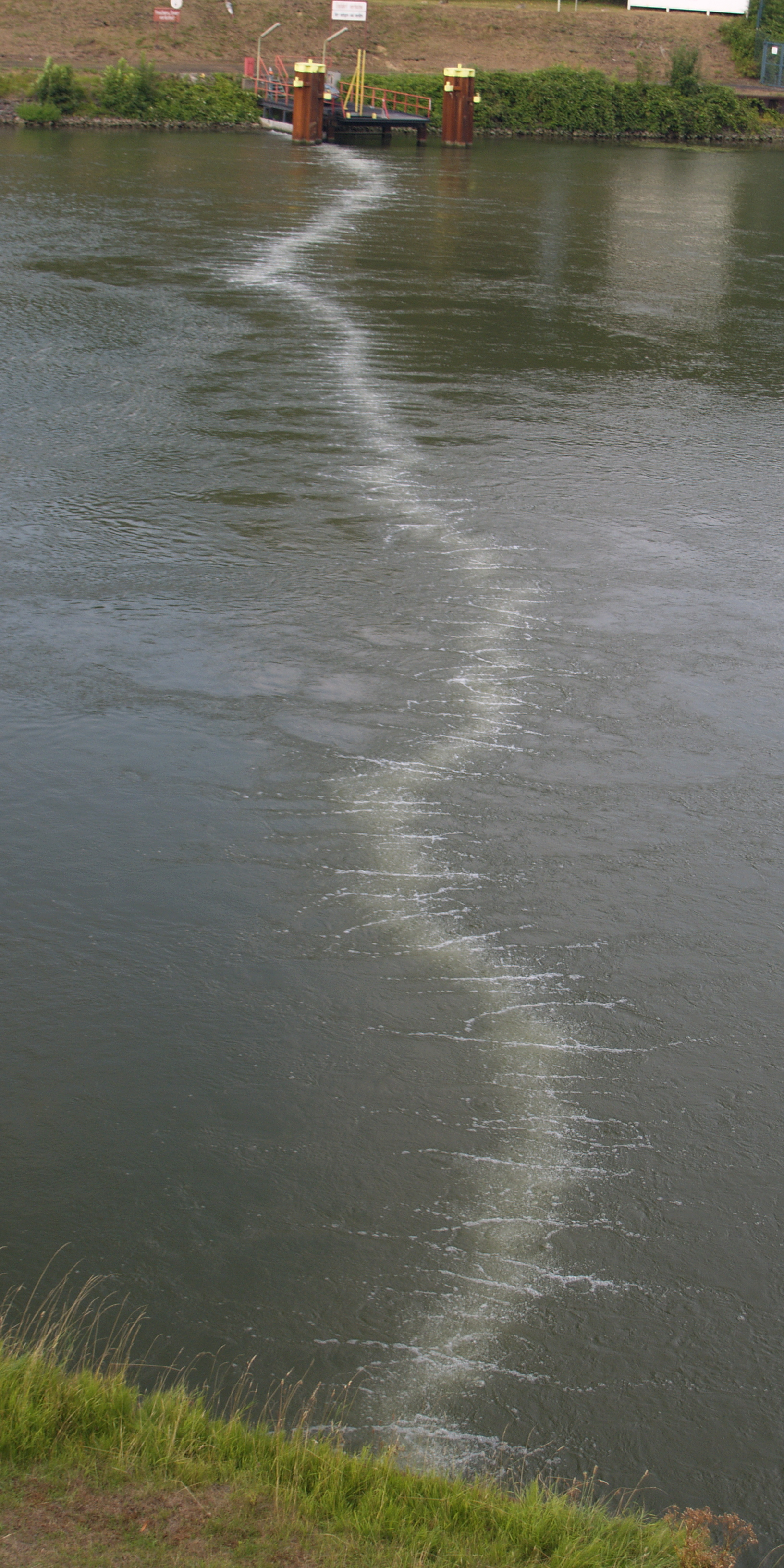 Pneumatic boom at an harbour mouth at Rhine-Herne Canal